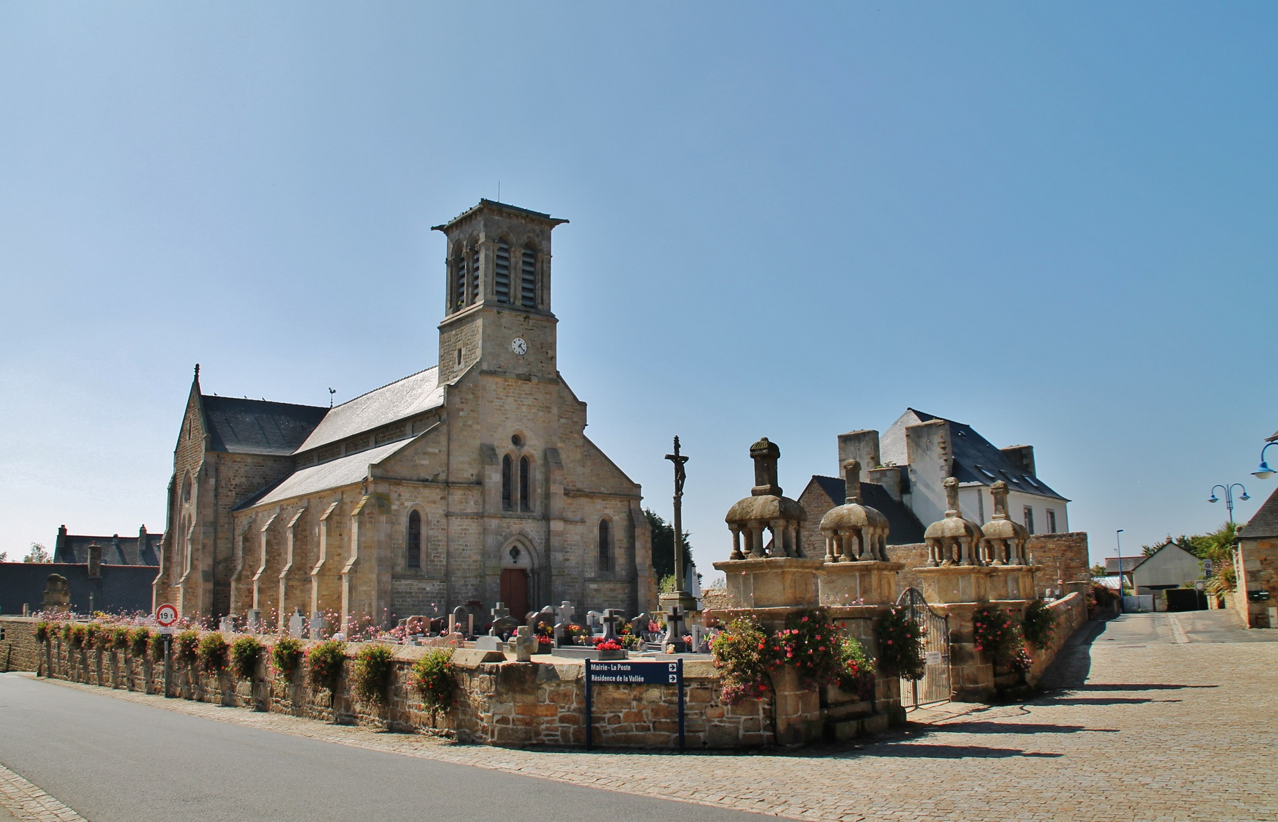 église St Tremeur